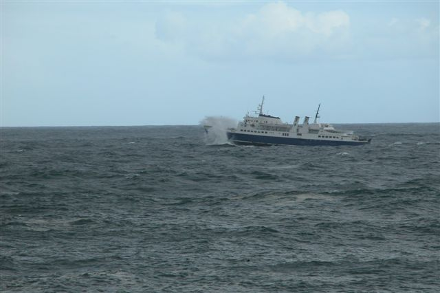 Smyril IV, Faroe Islands, struggling with the sea.